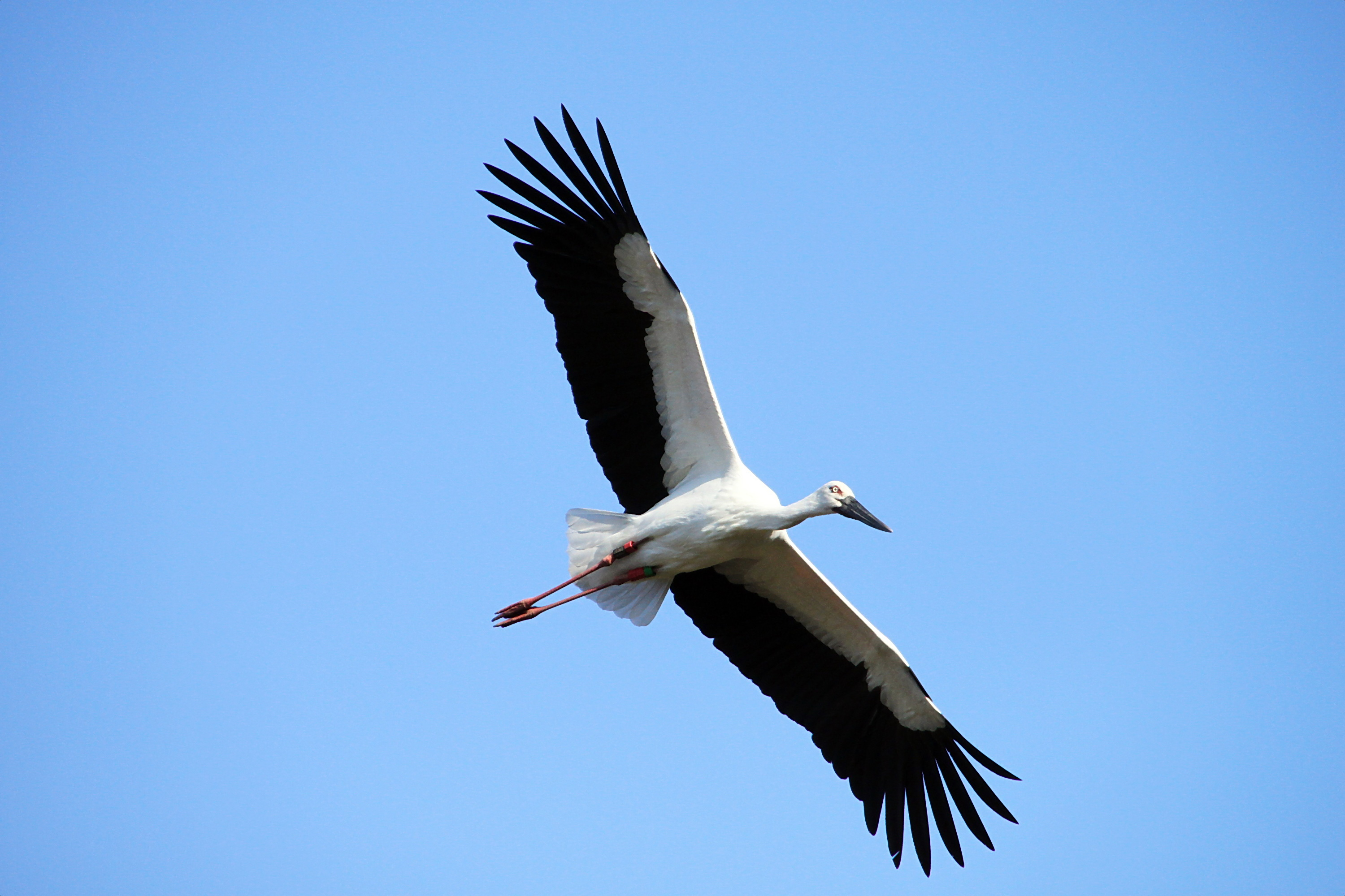 Toyooka City is an important habitat for the Oriental White Stork